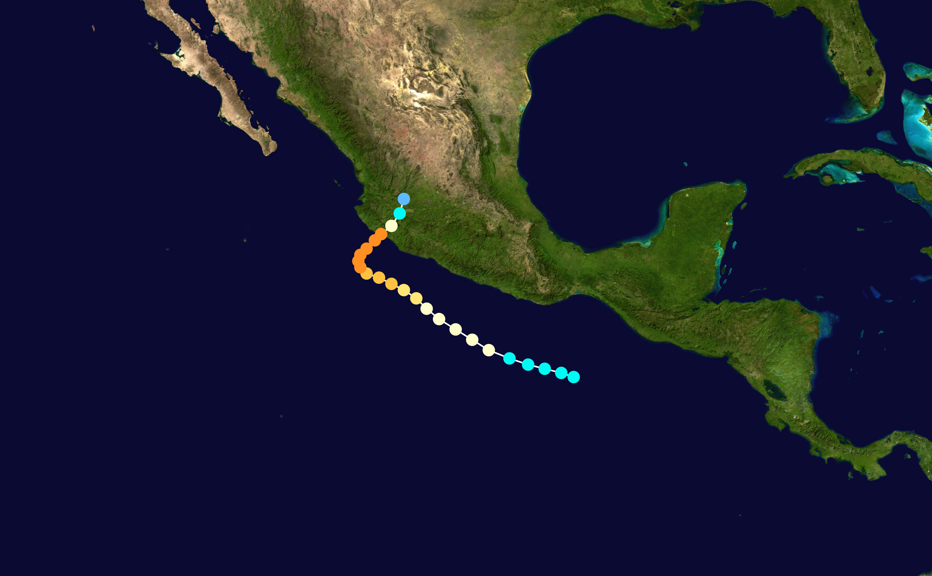 Track map of Hurricane Fifteen of the 1959 Pacific hurricane season. The points show the location of the storm at 6-hour intervals. The colour represents the storm's maximum sustained wind speeds as classified in the Saffir–Simpson scale (see below), and the shape of the data points represent the nature of the storm, according to the legend below. Saffir–Simpson scale Tropical depression≤38 mph≤62 km/h Category 3111–129 mph178–208 km/h Tropical storm39–73 mph63–118 km/h Category 4130–156 mph209–251 km/h Category 174–95 mph119–153 km/h Category 5≥157 mph≥252 km/h Category 296–110 mph154–177 km/h Unknown Storm typeTropical cycloneSubtropical cycloneExtratropical cyclone / Remnant low / Tropical disturbance